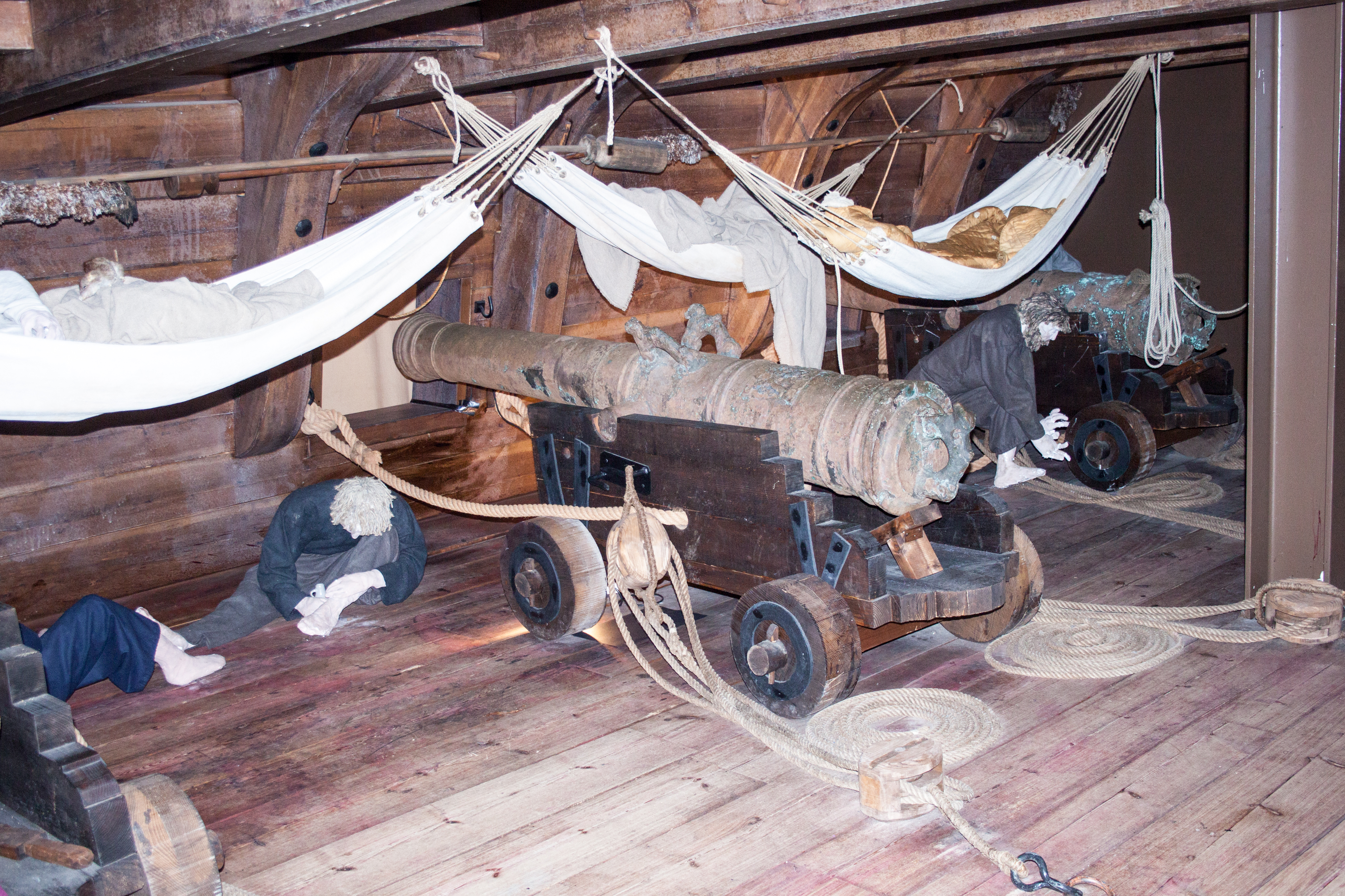 Cannons of the Kronan ship